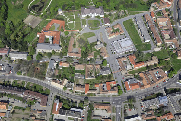 Szécsény, Hungary, aerial photography